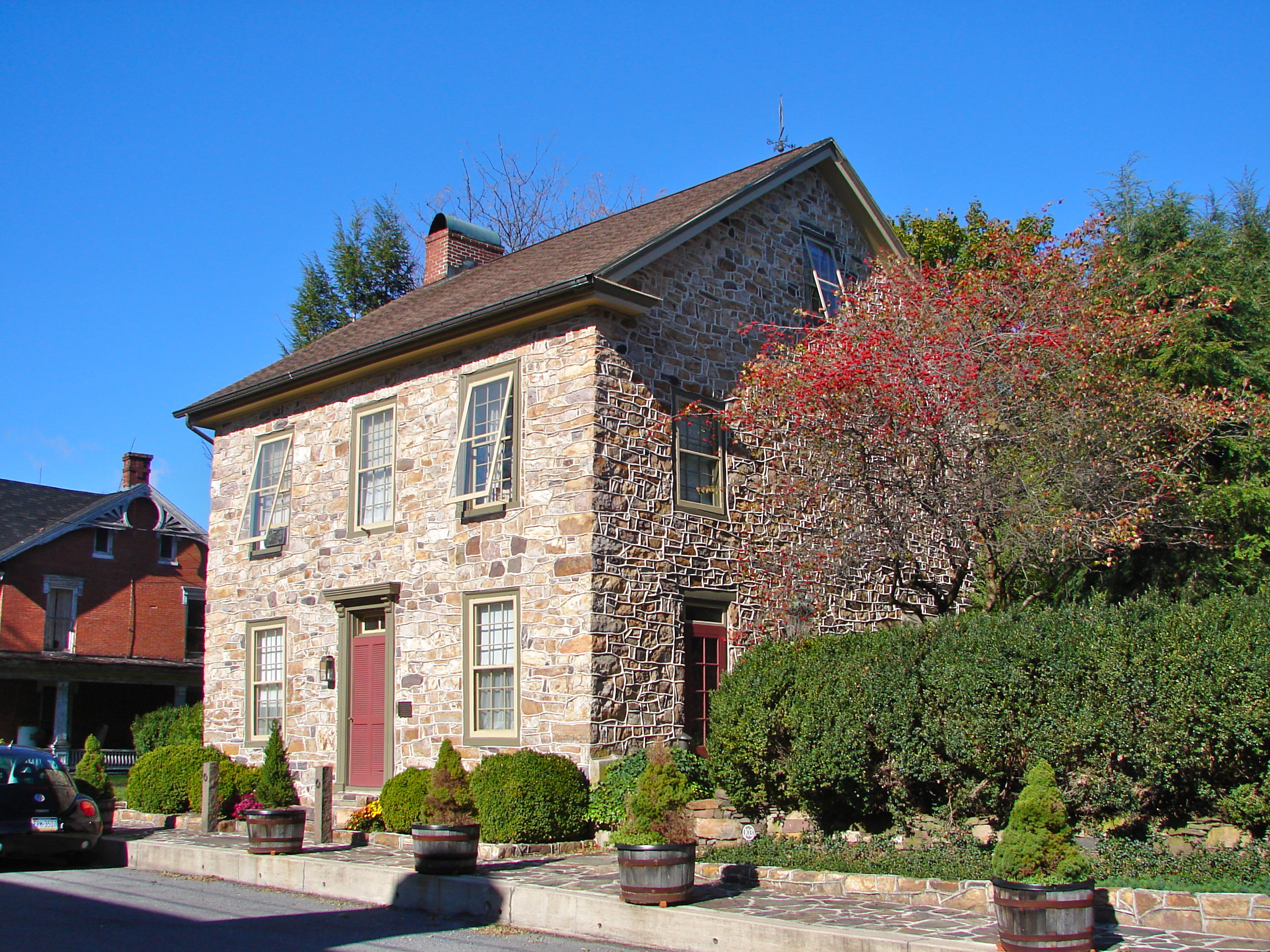 Dunbar-Creigh House on the NRHP since June 27, 1980. On the north side of Water Street (3 houses from west end), Landisburg, Perry County, Pennsylvania